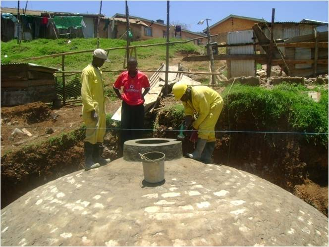 This EcoSan pilot project was implemented at a prison in Meru for about 1.500 inmates and 350 staff. TECHNICAL COMPONENTS: - 4-door UDDT EcoSan Toilet for staffs - 110 m3 Biogas plant, - baffled reactor